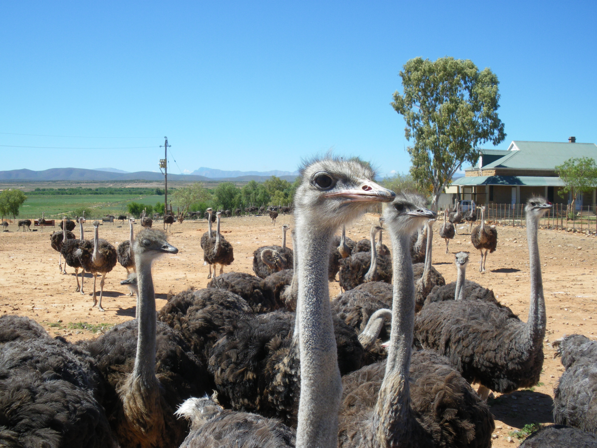 Ostritches in Oudtshoorn, Western Cape Province, South Africa